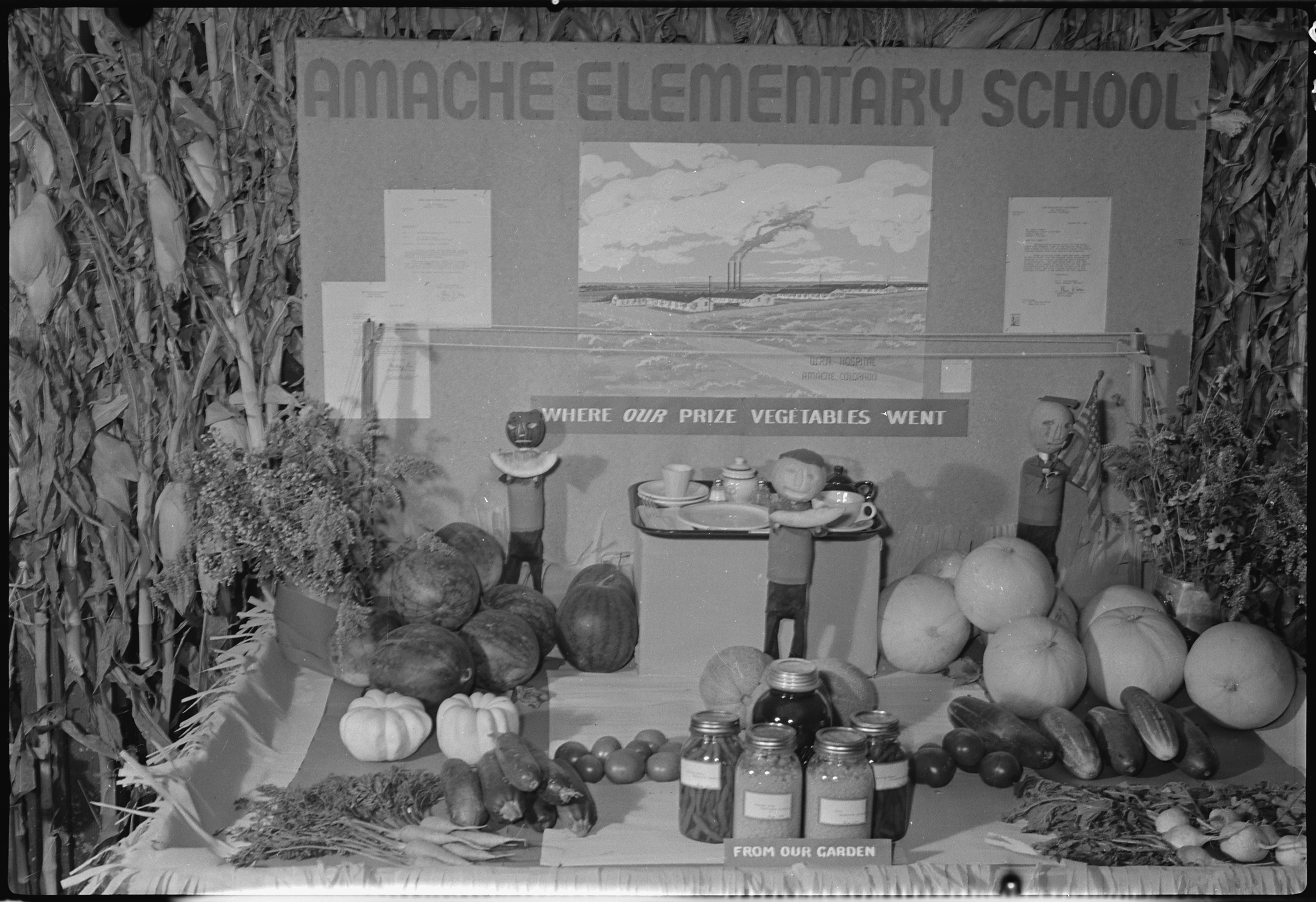 Scope and content: The full caption for this photograph reads: Granada Relocation Center, Amache, Colorado. Amache Elementary school victory garden exhibit, Amache Agricultural fair, September 11 and 12.